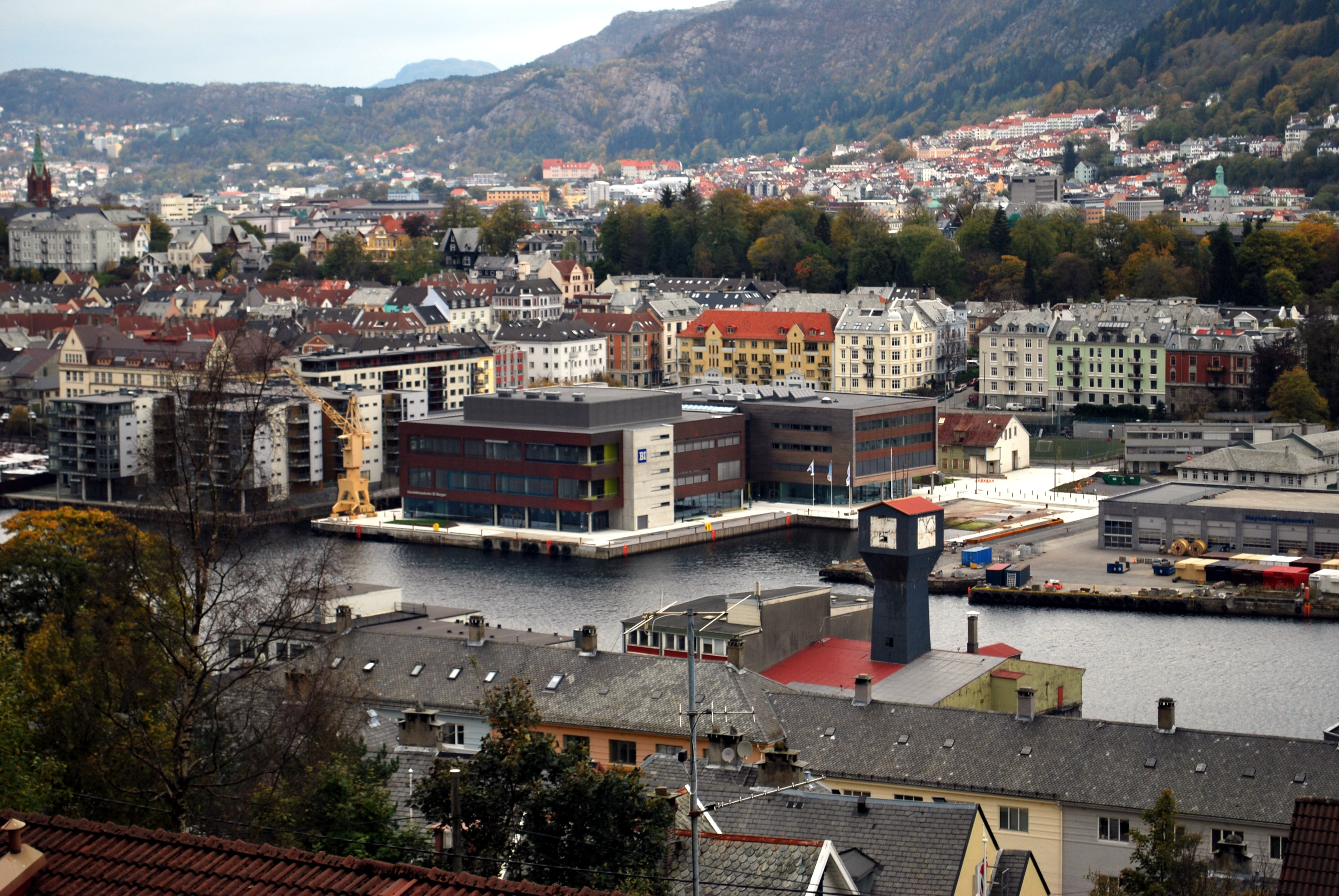 Møhlenpris in Bergen, building of Handelshøyskolen BI Bergen in centre.